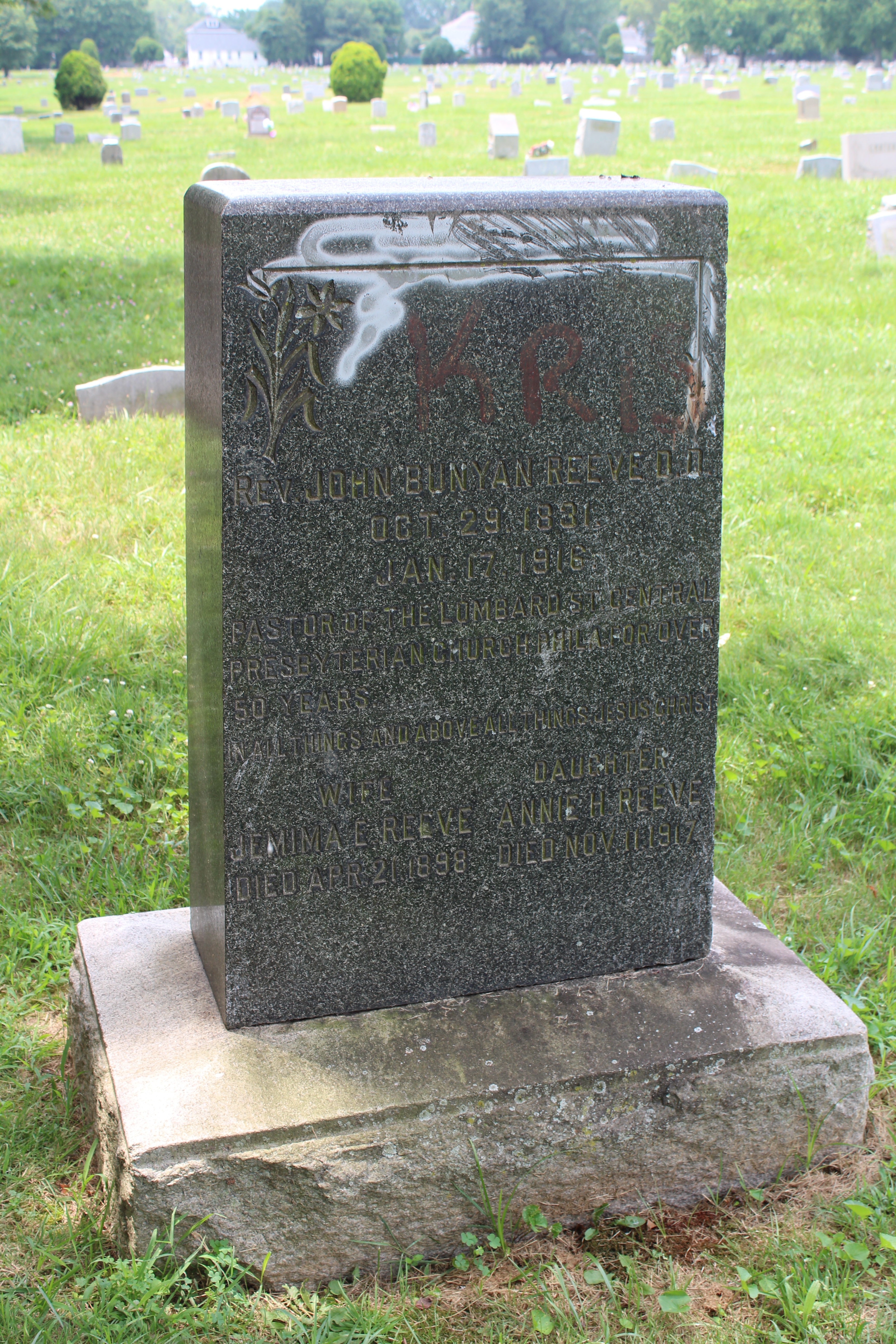 John Bunyan Reeve gravestone in Eden Cemetery, Collingdale, Pennsylvania. Photo taken July 2019